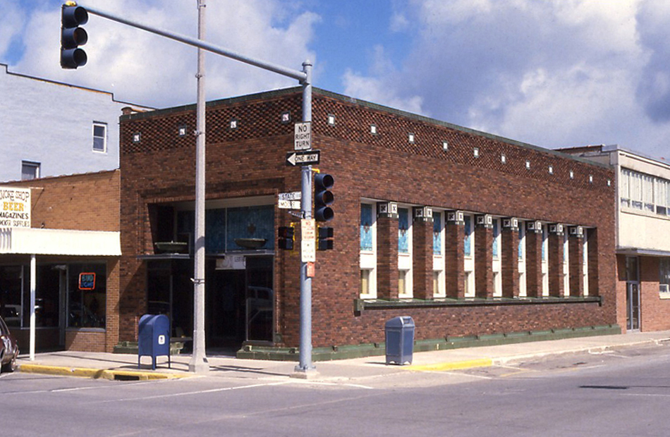 photo by Einar Einarsson Kvaran aka Carptrash 22:19, 22 December 2006 (UTC) from A Pilgrimage for Louis Sullivan, an unpublished manuscript.